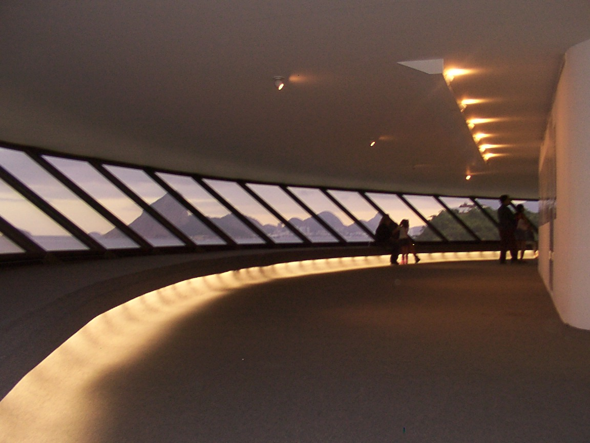 Niterói Contemporary Art Museum.Archive MAC - Museu de Arte Contemporânea/RJ